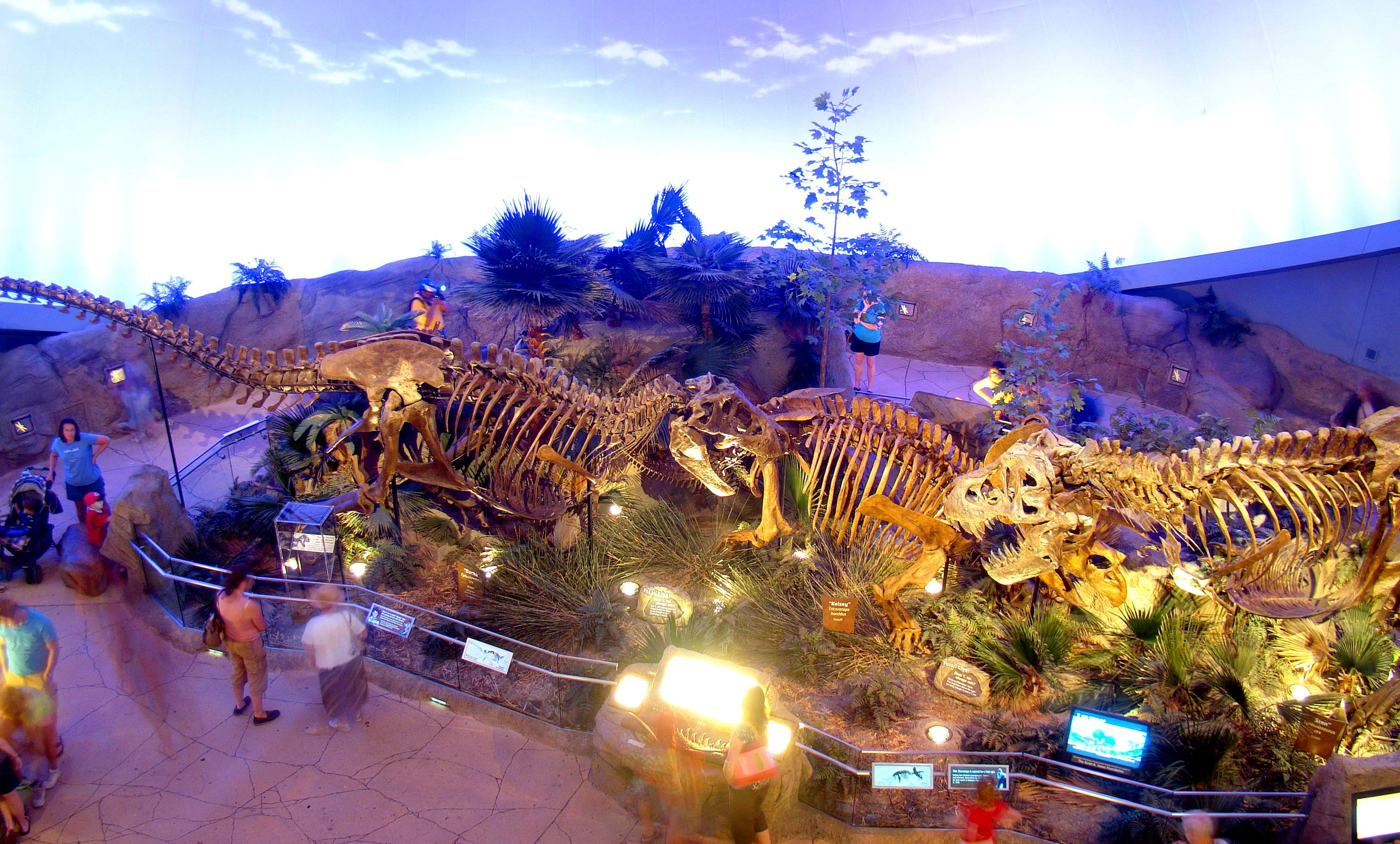 DSC02558 Panoramic view of Bucky (T. Rex fossil), Kelsey (Triceratops fossil) and Stan (T. Rex cast) by Volkan Yuksel